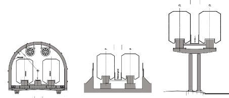 Crossection of an elevated, at-grade and tunnel alternative for a people mover at Fornebu.